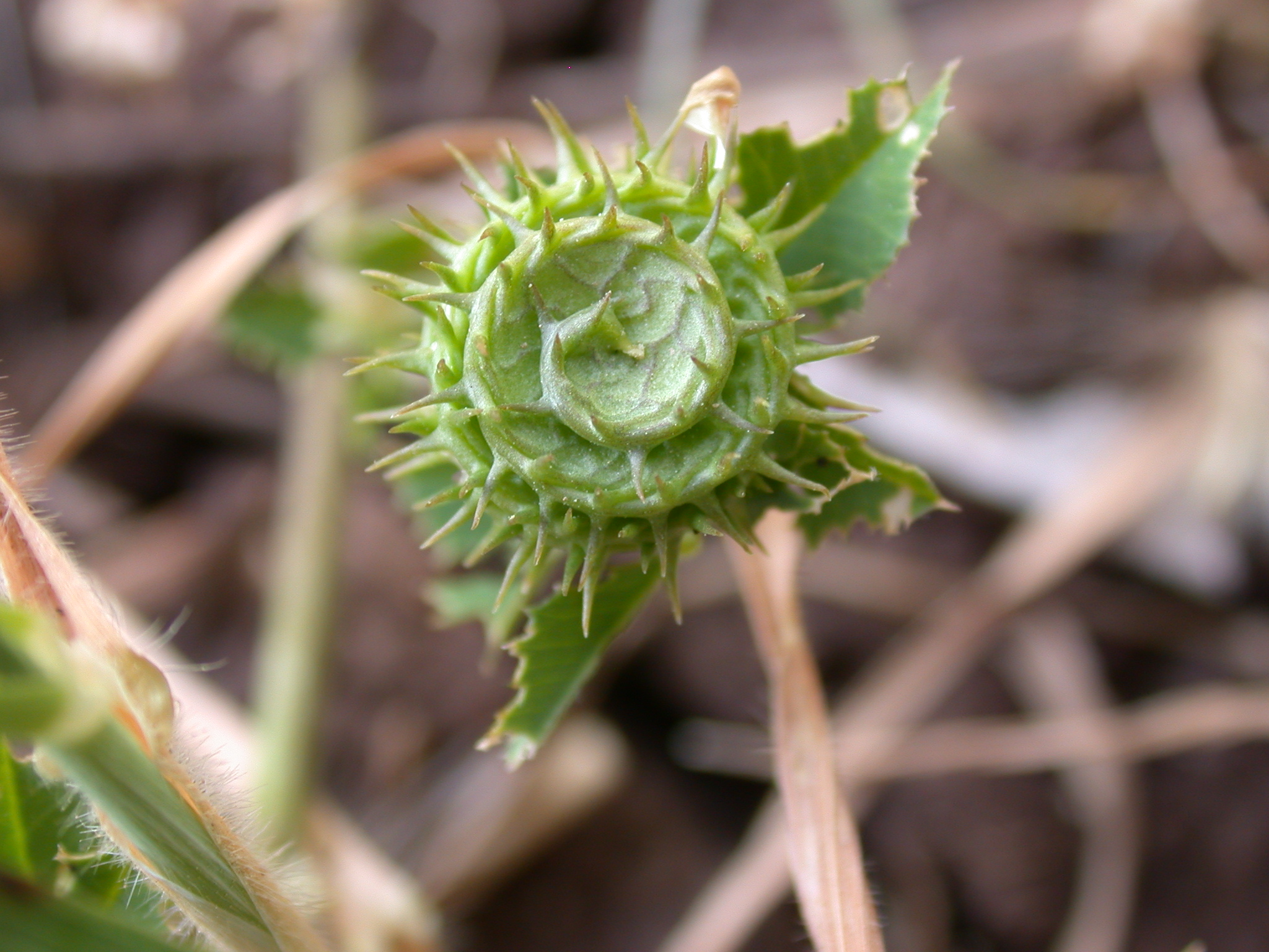 Medicago granadensis Willd. (אספסת הגליל), Mount Carmel, Israel, May 2, 2008. Other names: Medicago galilaea Boiss.